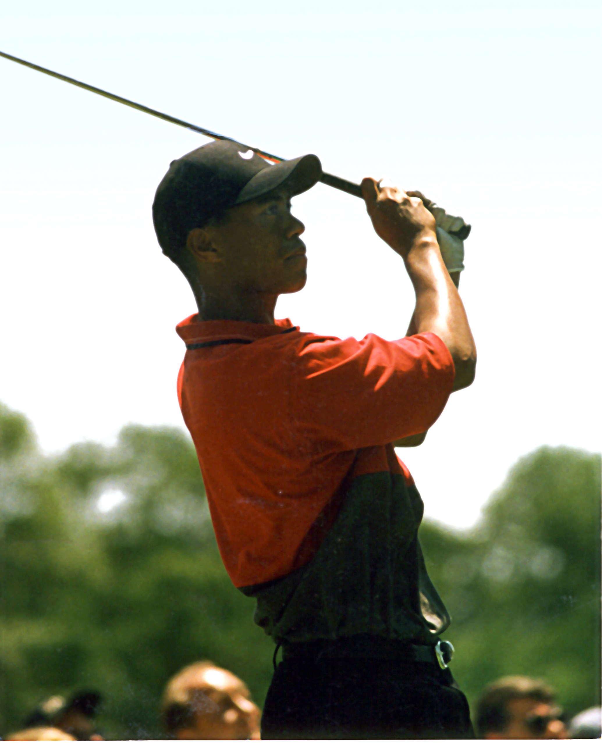 Tiger Woods during his first U.S. Open at Bethesda, Md.'s Congressional Country Club in 1997